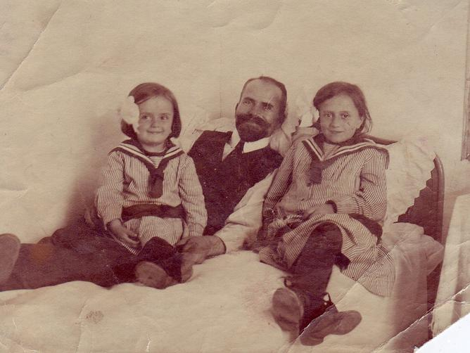 Nikola Yurukov portrait